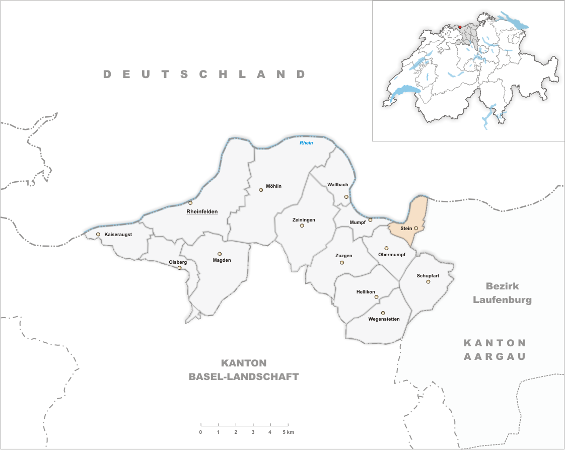 Municipality Stein